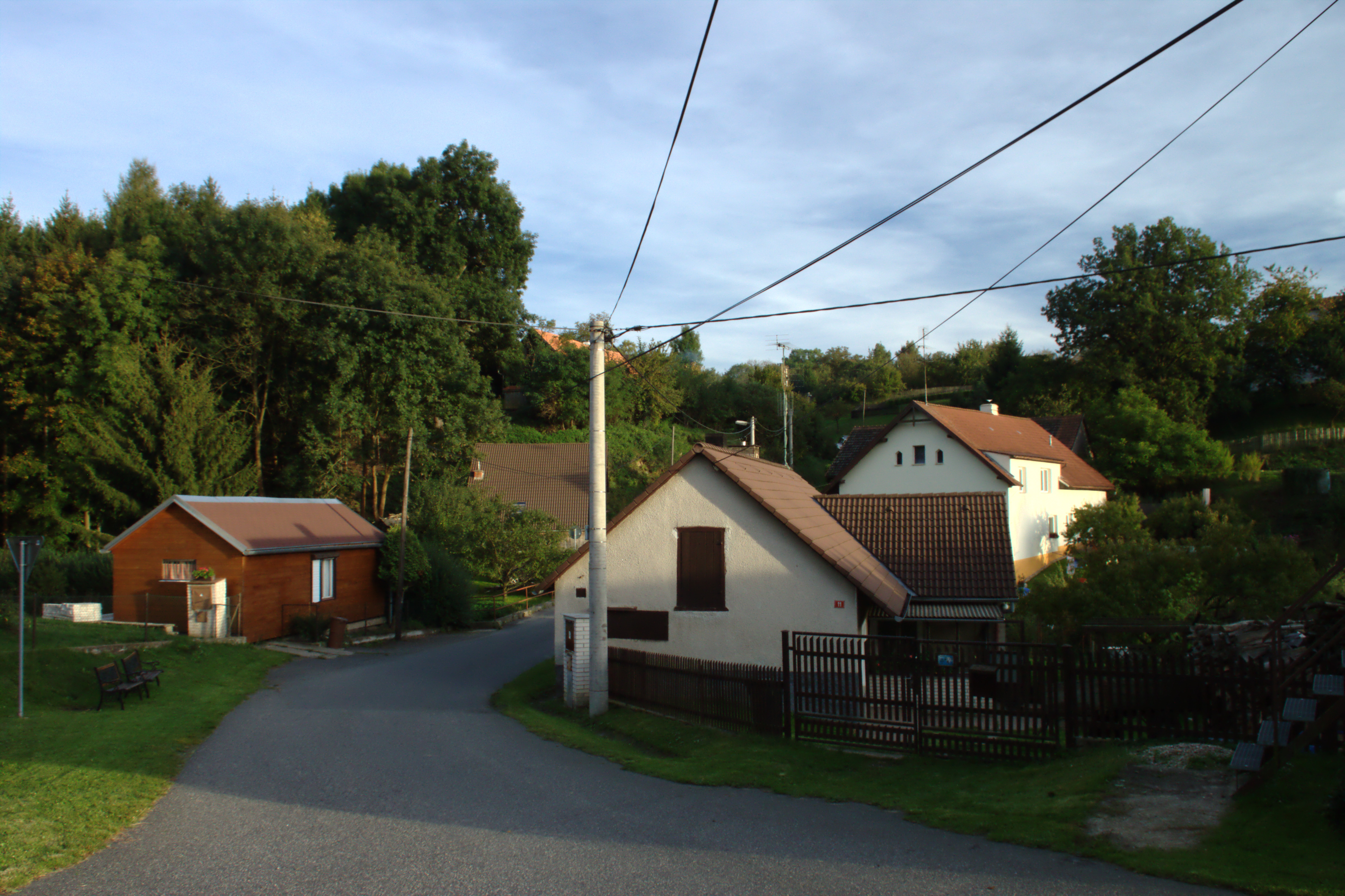 Buildings near the road in Čenovice, Central Bohemian Region, CZ